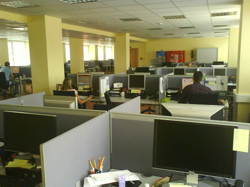 Orange call center 905 - Slovakia